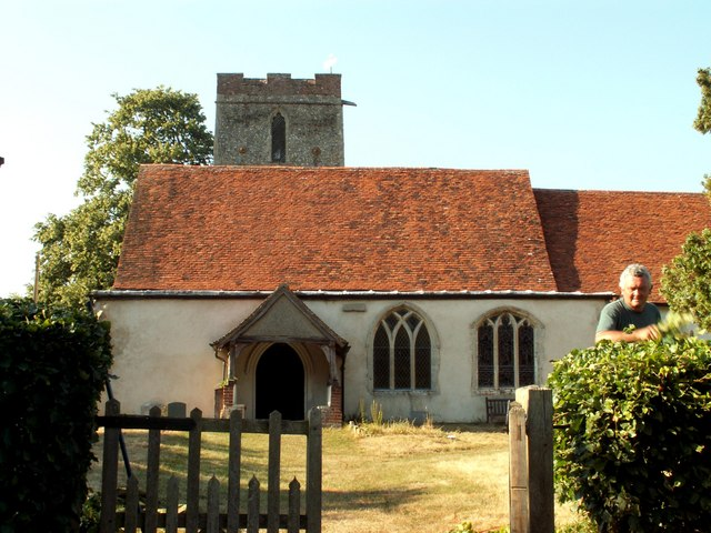 All Saints' church, Shelley, Suffolk. Most of this church is 14th century and it is unusual in having a north tower set in line with the south porch as seen in the picture.